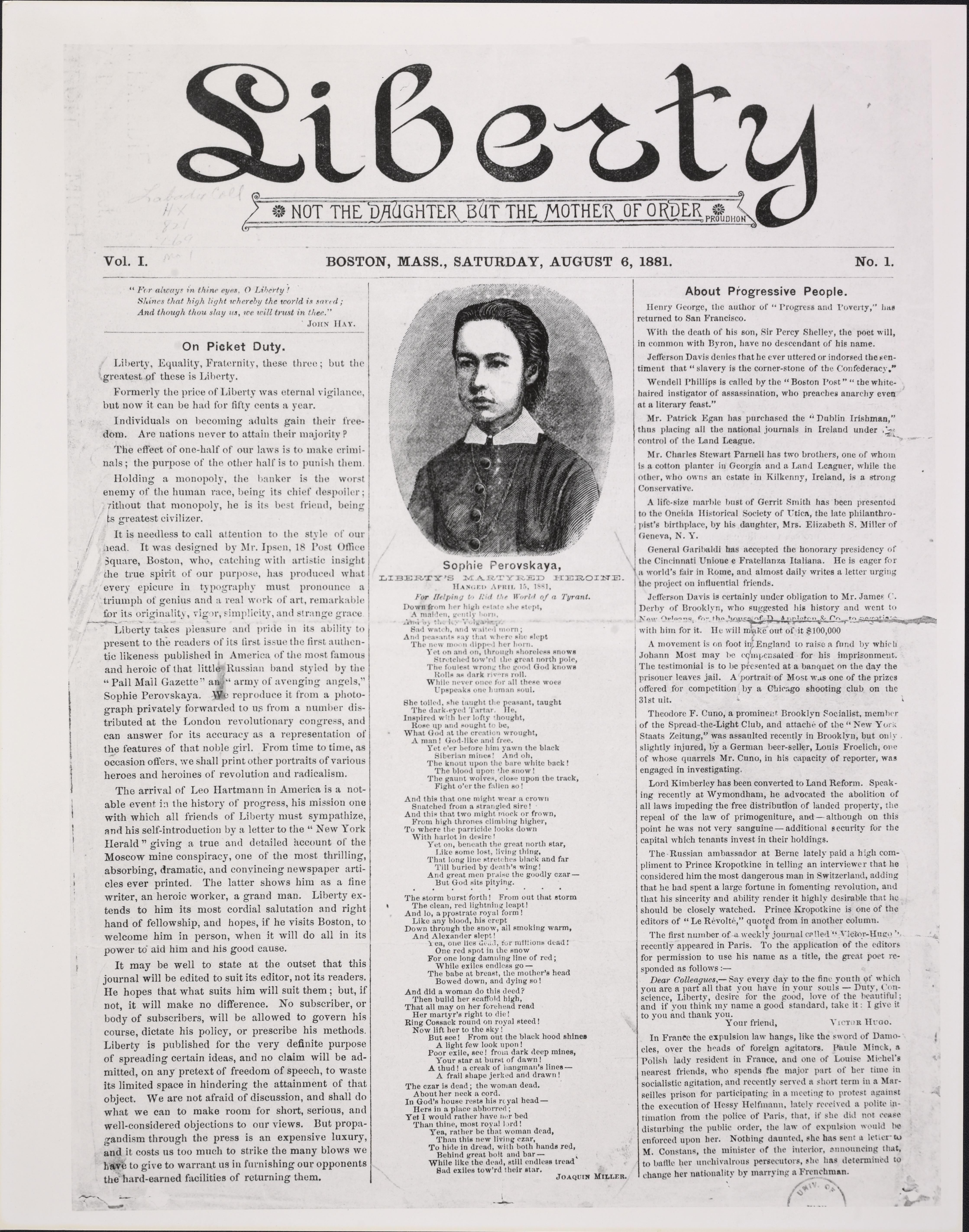 Liberty. Not the daughter but the mother of order.